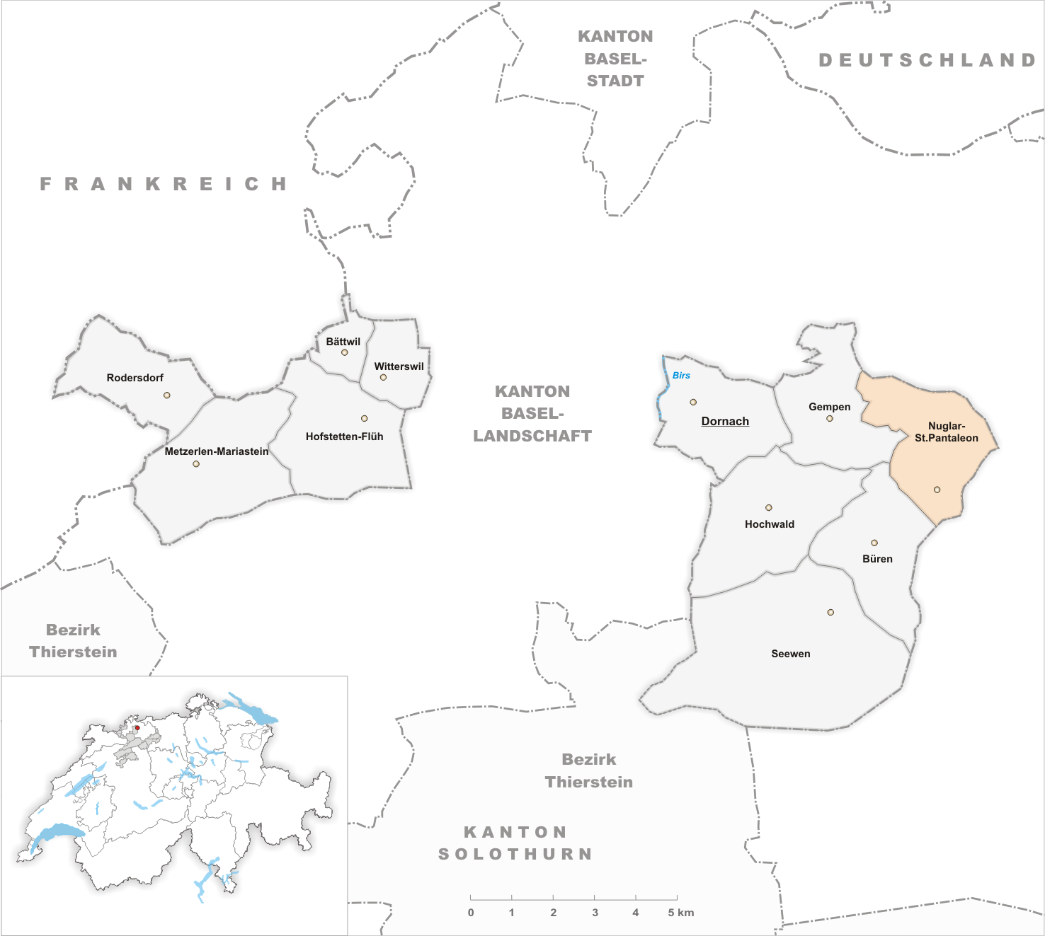 Municipality Nuglar-St.Pantaleon